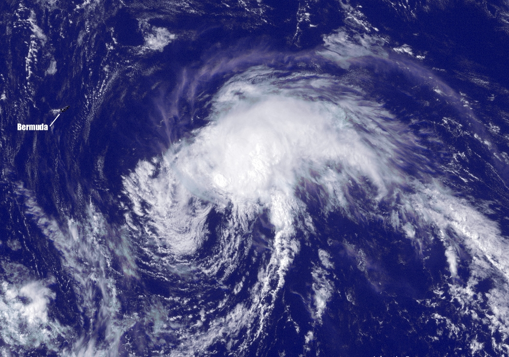 Tropical storm Arlene